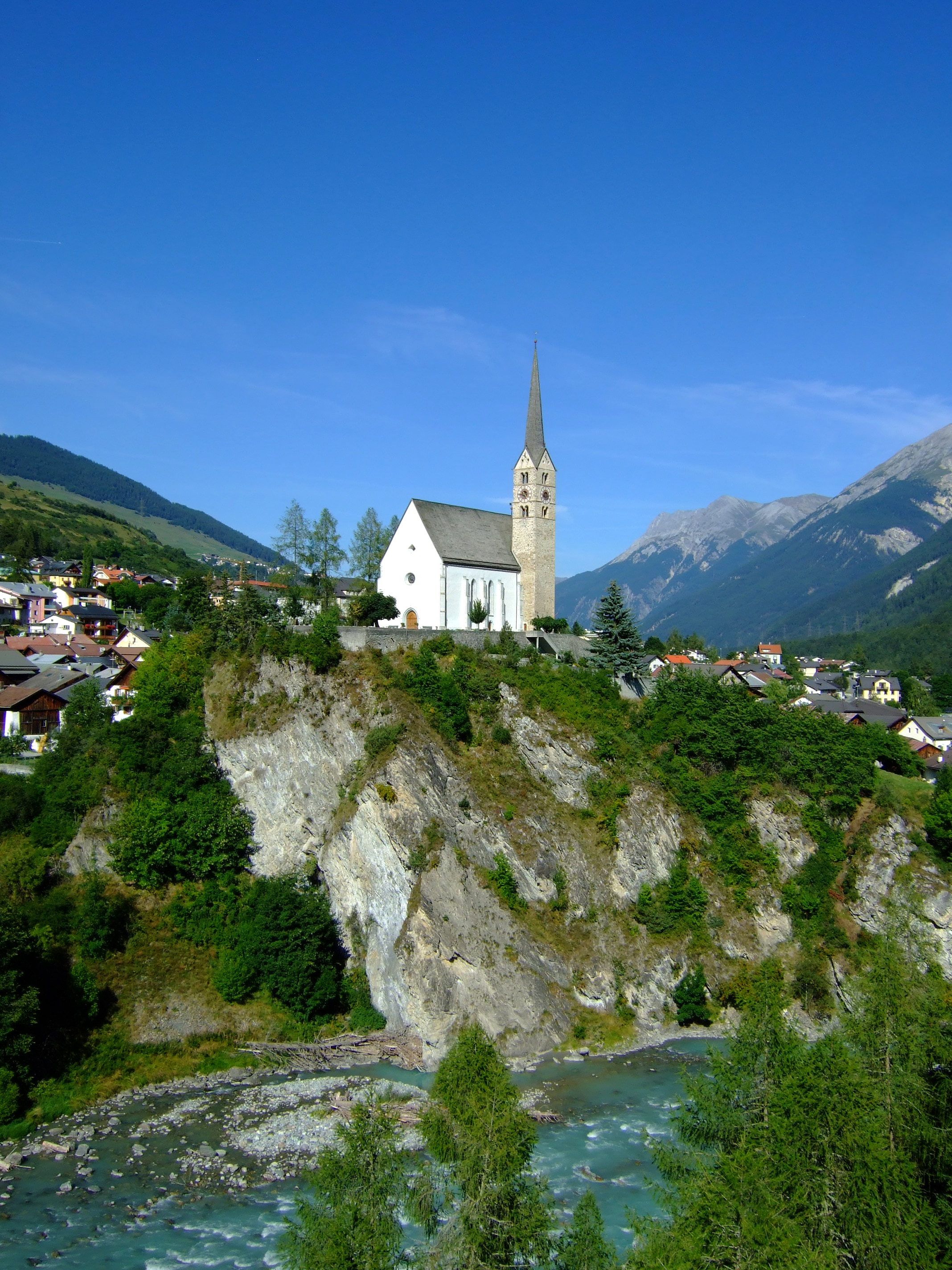 Church of Scuol with river Inn, Lower Engadin, Switzerland